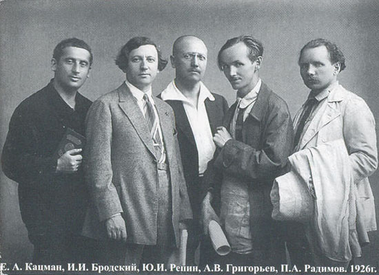 Members of AHHR (Association of Painters of revolutionary Russia) E.Katsman, I.Brodskiy, J.Repin, A.Grigoriev, P.Radimov